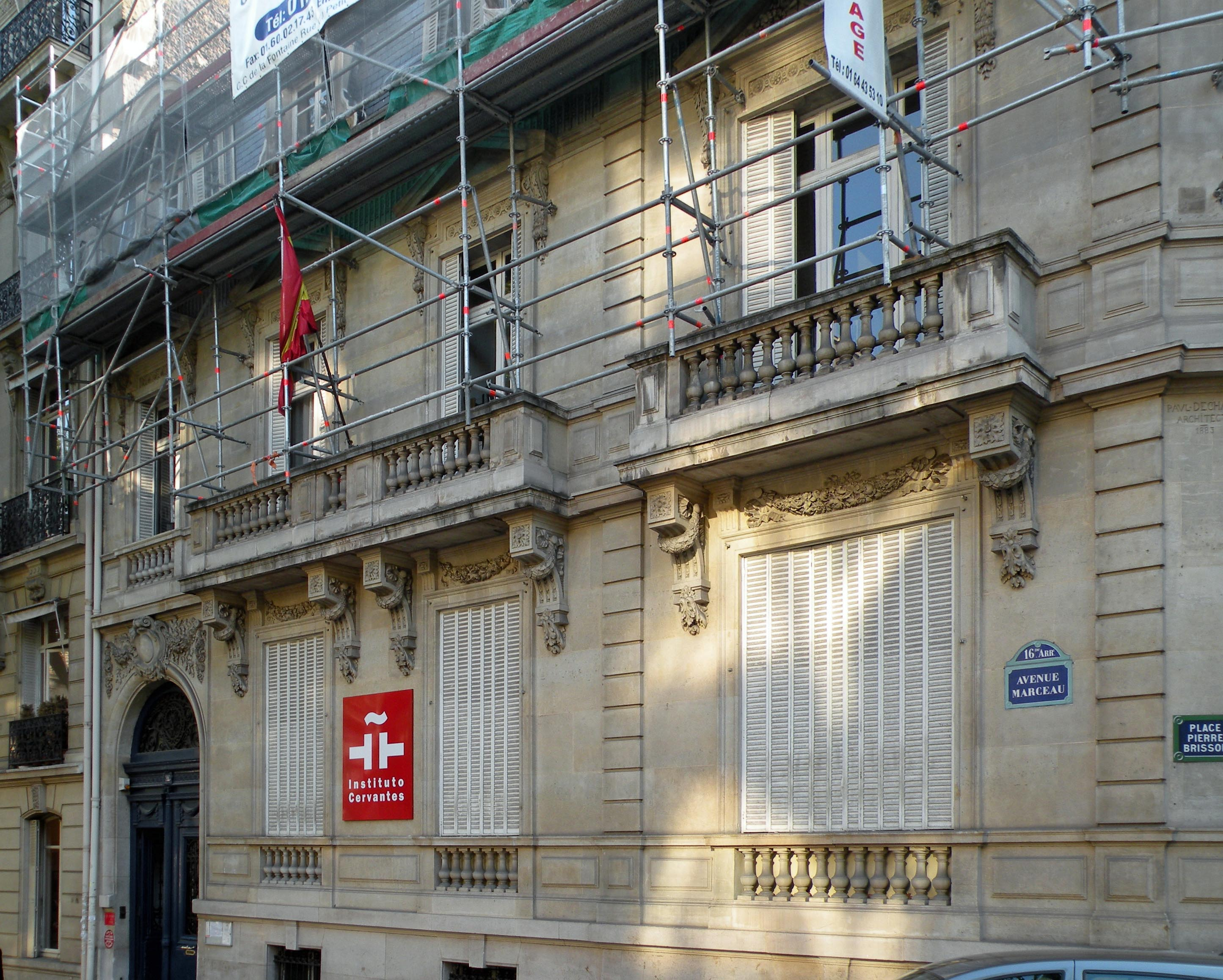 Instituto Cervantes of Paris.